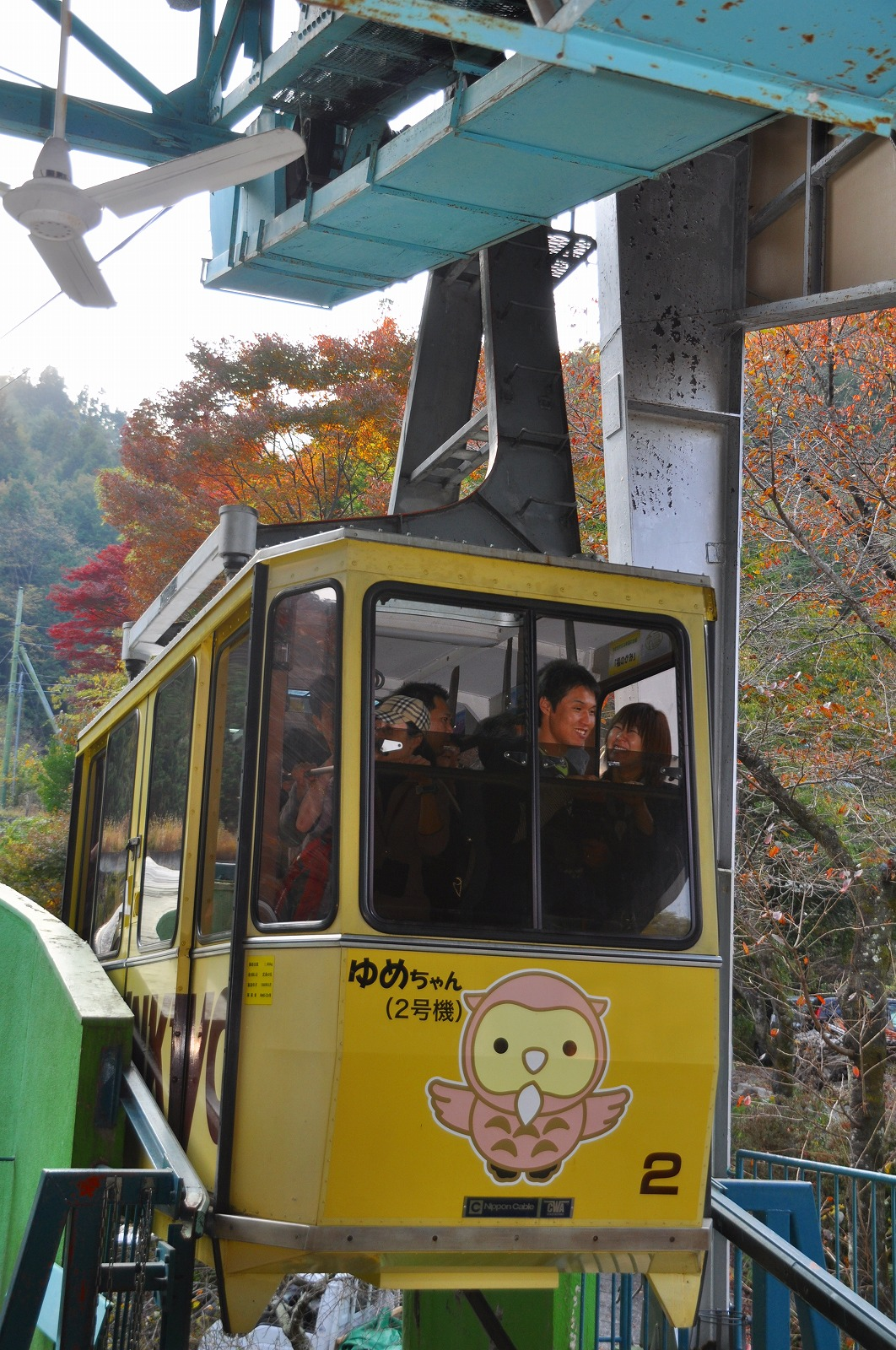 Shōsenkyō ropeway